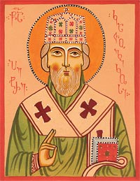 Saint Petre I of Iberia, first Catholicos of Iberia (from the 460s)